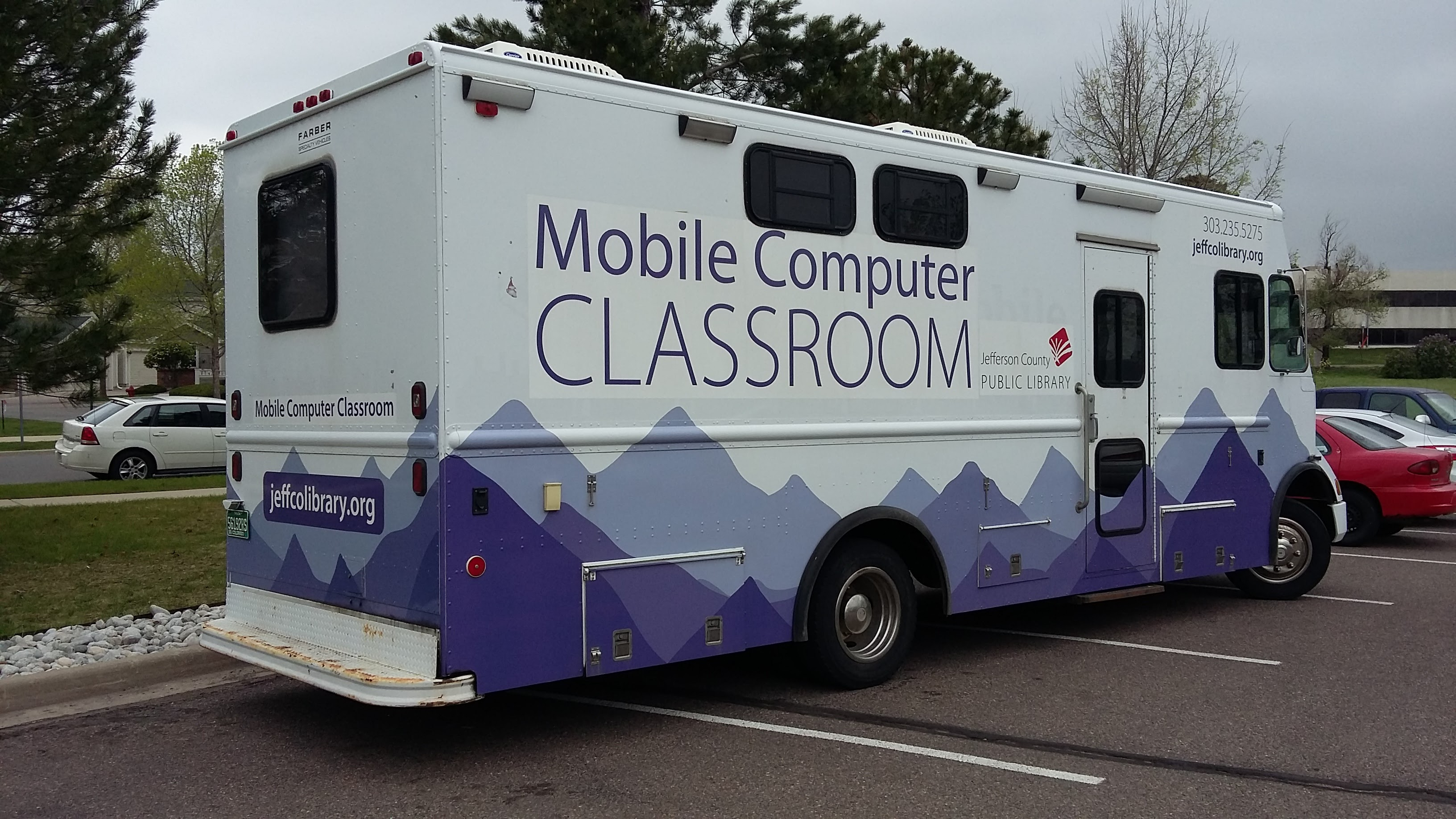 Moblie Computer Classroom vehicle, Jefferson County Public Library at Belmar Library